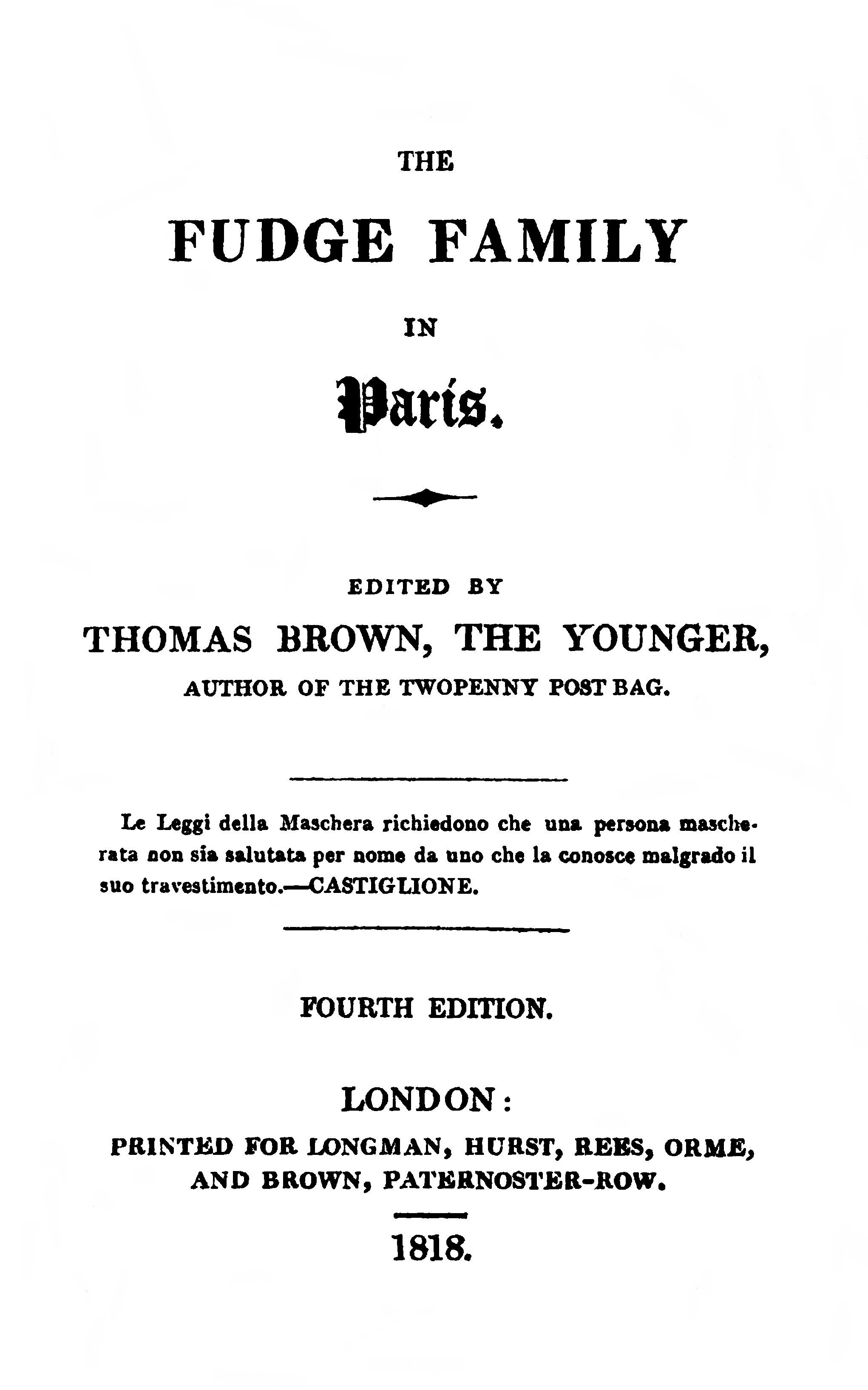 The Fudge Family in Paris 4th ed title pg